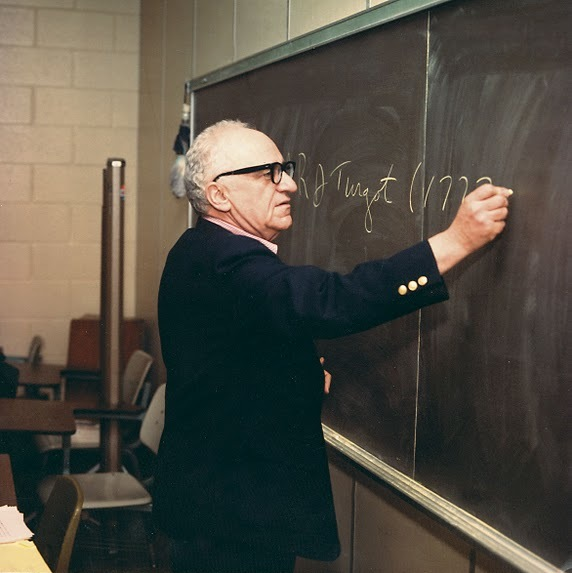 Rothbard teaching